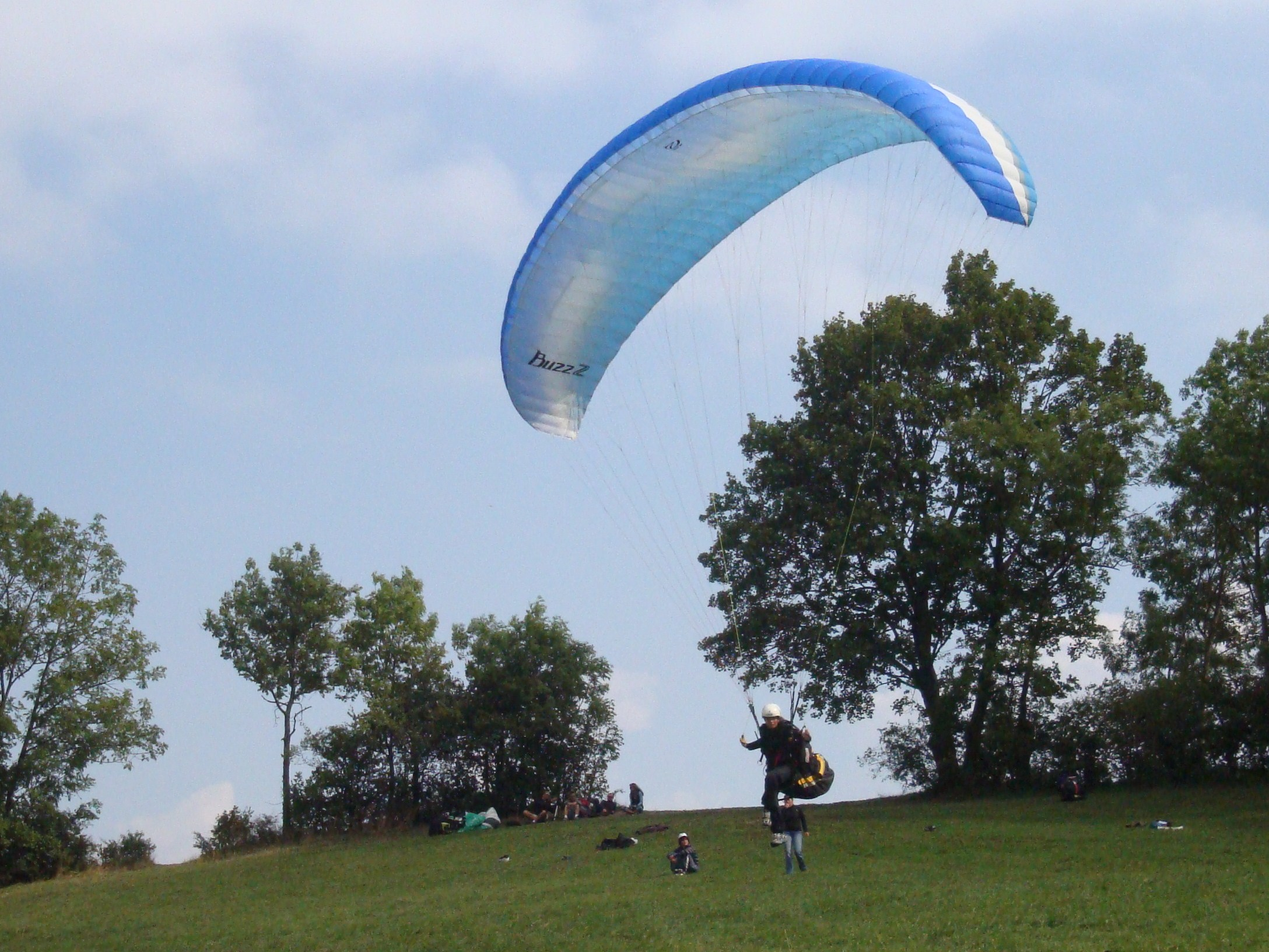 Paraglider - Ozone Buzz Z